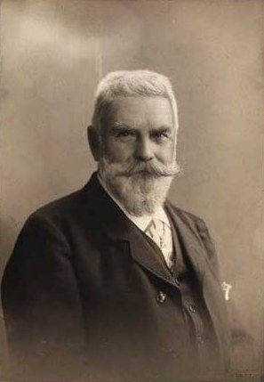 Danish curator, founder of Frilandsmuseet and Dansk Folkemuseum Rasmus Ulrik Bernhard Olsen (1836-1922)